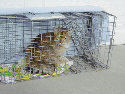 Feral cat, sterilized through a Trap-Neuter-Return program. The cat is shown recovering in a humane trap after spay surgery and was later released at the site of trapping. Note notch at tip of the cat's right ear, marking it as a sterilized feral cat.